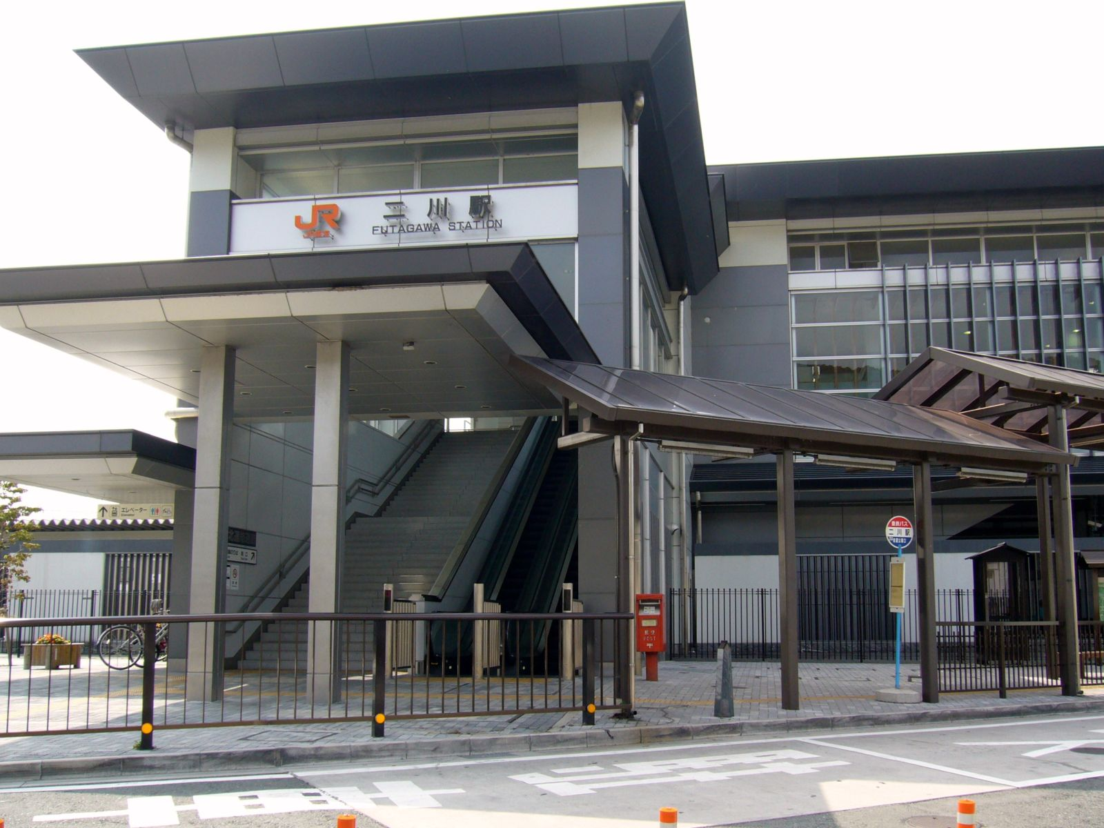 Futagawa Station (Aichi pref,Japan)